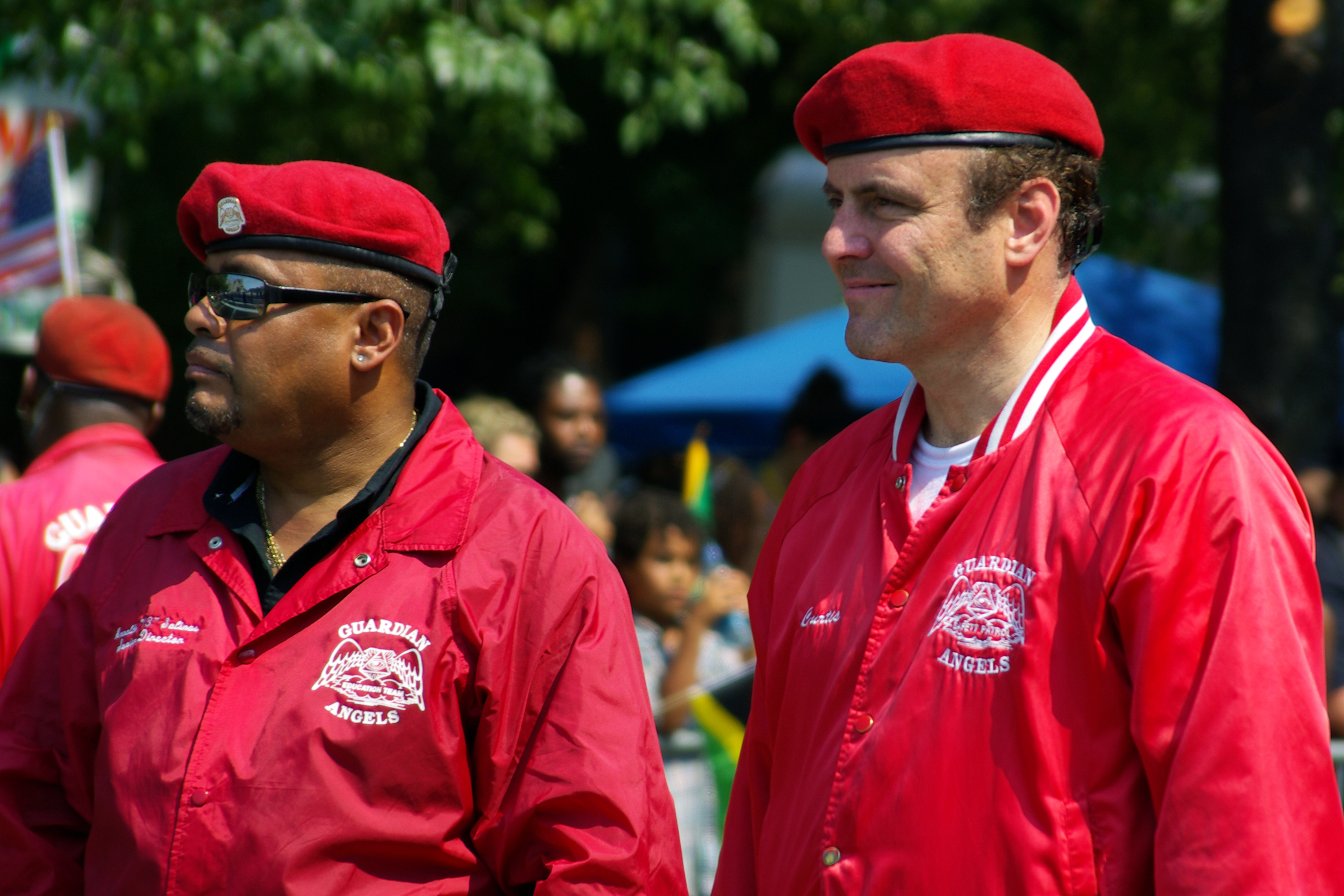 West Indian Day parade at the Grand Army Plaza, Eastern Parkway, Brooklyn, NY